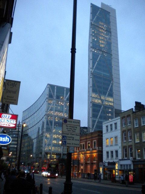 Shoreditch High Street E1